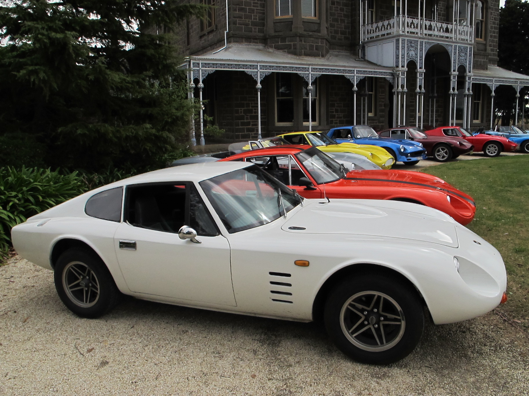 Bolwell cars at Barwon Park Mansion. The white coupe in the foreground is a Mark VII.